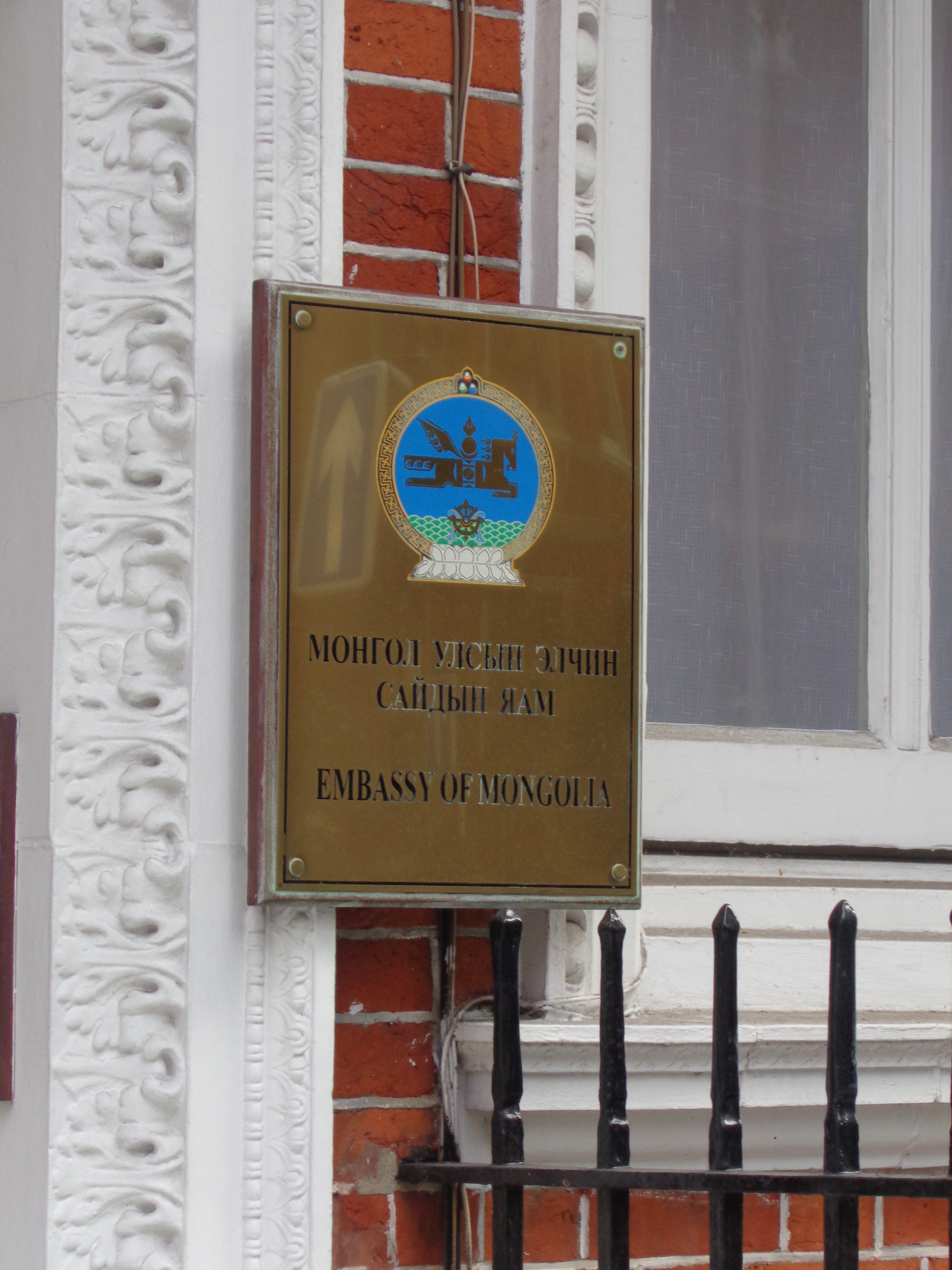 Embassy of Mongolia, Kensington Court, Royal Borough of Kensington and Chelsea, London. Taken on the afternoon of Thursday the 25th of September 2014.